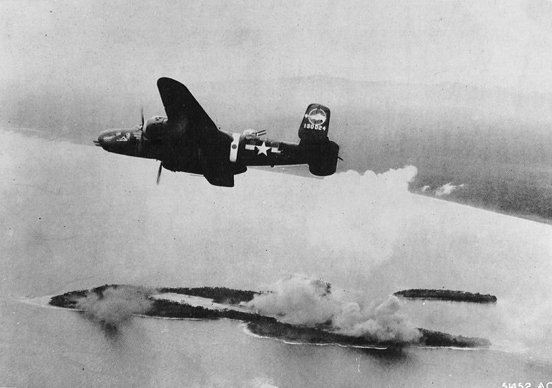 "Pannell Job" North American B-25D-5-NA Mitchell s/n 41-30024 500th Bomb Squadron "Rough Raiders", 345th Bomb Group "Air Apaches". Over Wakde Island on May 11,1944.